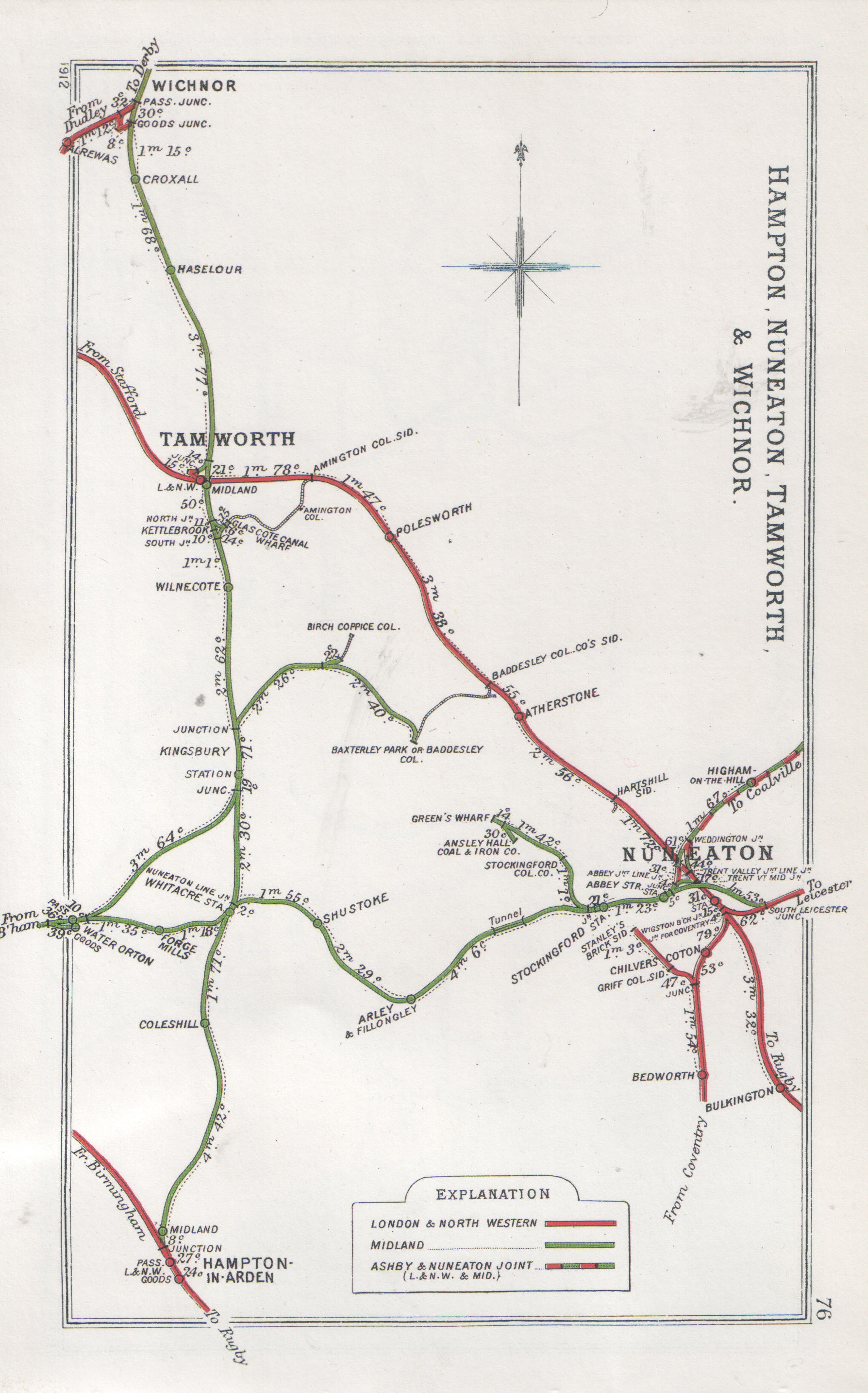 Pre Grouping railway junction around Hampton, Nuneaton, Tamworth & Wichnor